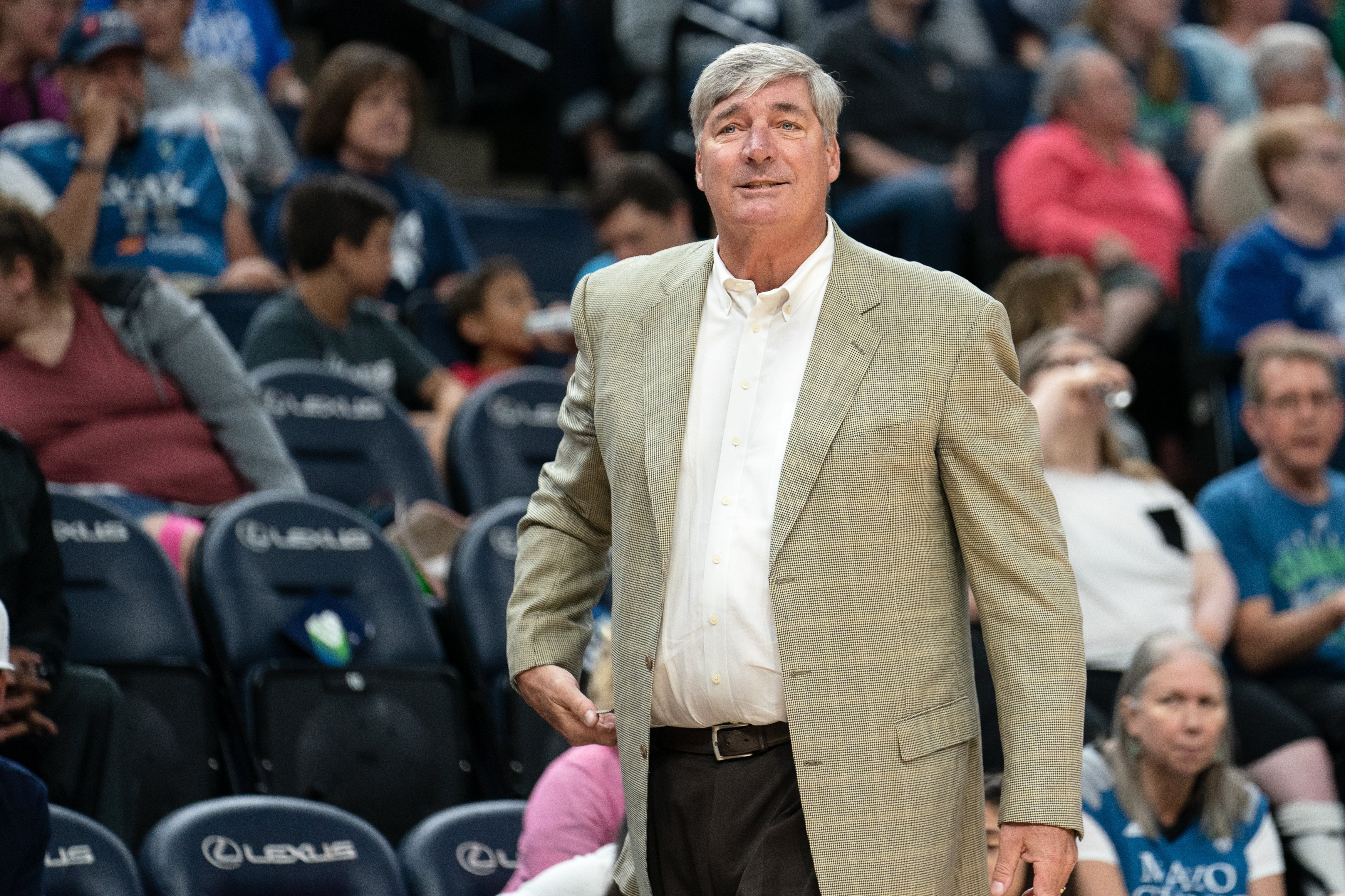 Las Vegas Aces coach, Bill Laimbeer, on the sidelines